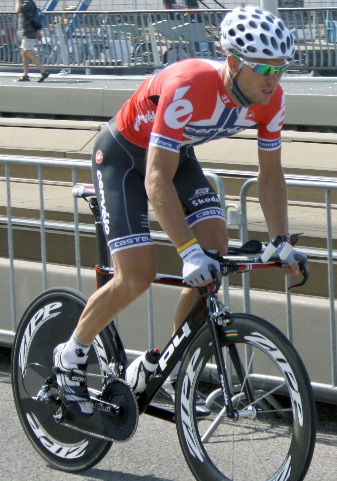 Thor Hushovd training for the prologue of the 2010 Tour de France in Rotterdam